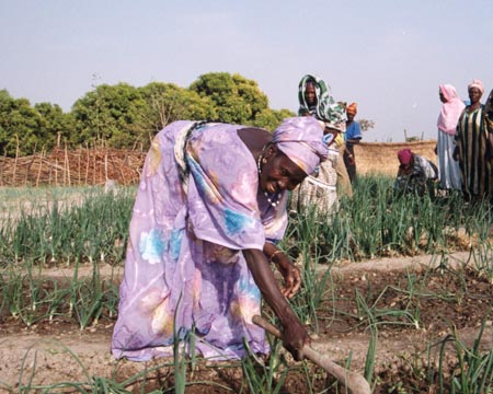 president of a farmers cooperative in Dinguiraye Prefecture, Guinea, working in an onion field